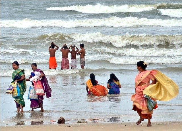 ಅಮವಾಸೆ ಸ್ನಾನ ವಿಶೇಷತೆ ತುಳುನಾಡಿನಲ್ಲಿ ಆಟಿ ಅಮವ್ಯಾಸೆಗೆ ವಿಶೇಷ ಸ್ಥಾನಮಾನವಿದೆ. ಕರಾವಳಿ ಭಾಗದಲ್ಲಿ ಹೆಚ್ಚಾಗಿ ಈ ಸಮಯದಲ್ಲಿ ಹಾಲೇ ಮರದ ತೊಗಟೆ ಕಷಾಯವನ್ನು ಸೇವಿಸುತ್ತಾರೆ. ಆಟಿ ಅಮವ್ಯಾಸೆ ದಿನವಾದ ಅಂದು ಅನೇಕ ಜನರು ಈ ಕಷಾಯವನ್ನು ಸಿದ್ಧಪಡಿಸಿ ಸೇವಿಸಿ ಸಂಭ್ರಮಿಸಿವರು. ತುಳುವರ ಪ್ರಕಾರ ಆಟಿ ತಿಂಗಳಲ್ಲಿ ಬರುವ ಈ ಅಮವ್ಯಾಸೆಗೆ ಬಹಳಷ್ಟು ಪ್ರಾಮುಖ್ಯತೆ ಇರುತ್ತದೆ.